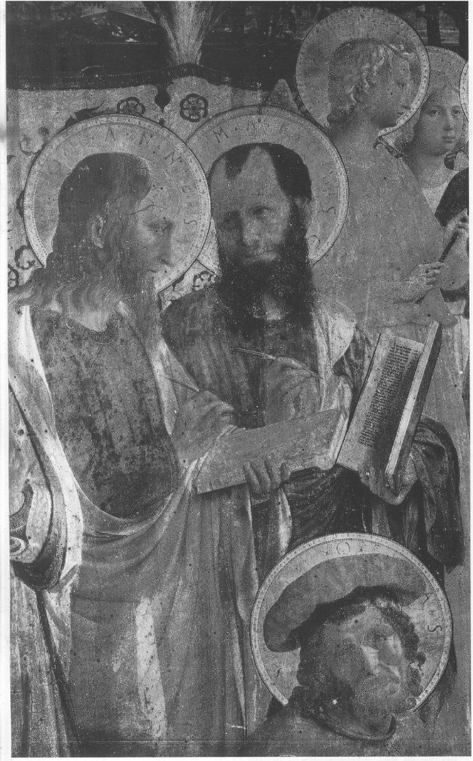 Detailed image of St. Mark (right) and St. John the Evangelist in Fra Angelico's San Marco Altarpiece